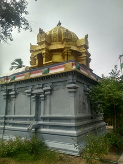 Kodiyalur agasthisvarar temple கொடியலூர் அகஸ்தீஸ்வரர் கோயில்